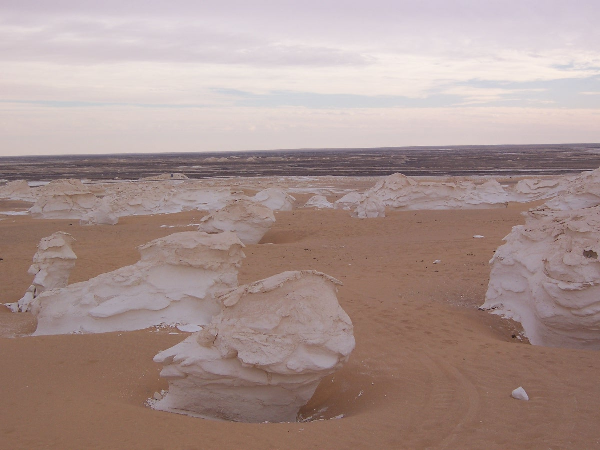 Mushroom rock formations at the White Desert near Farafra, Egypt